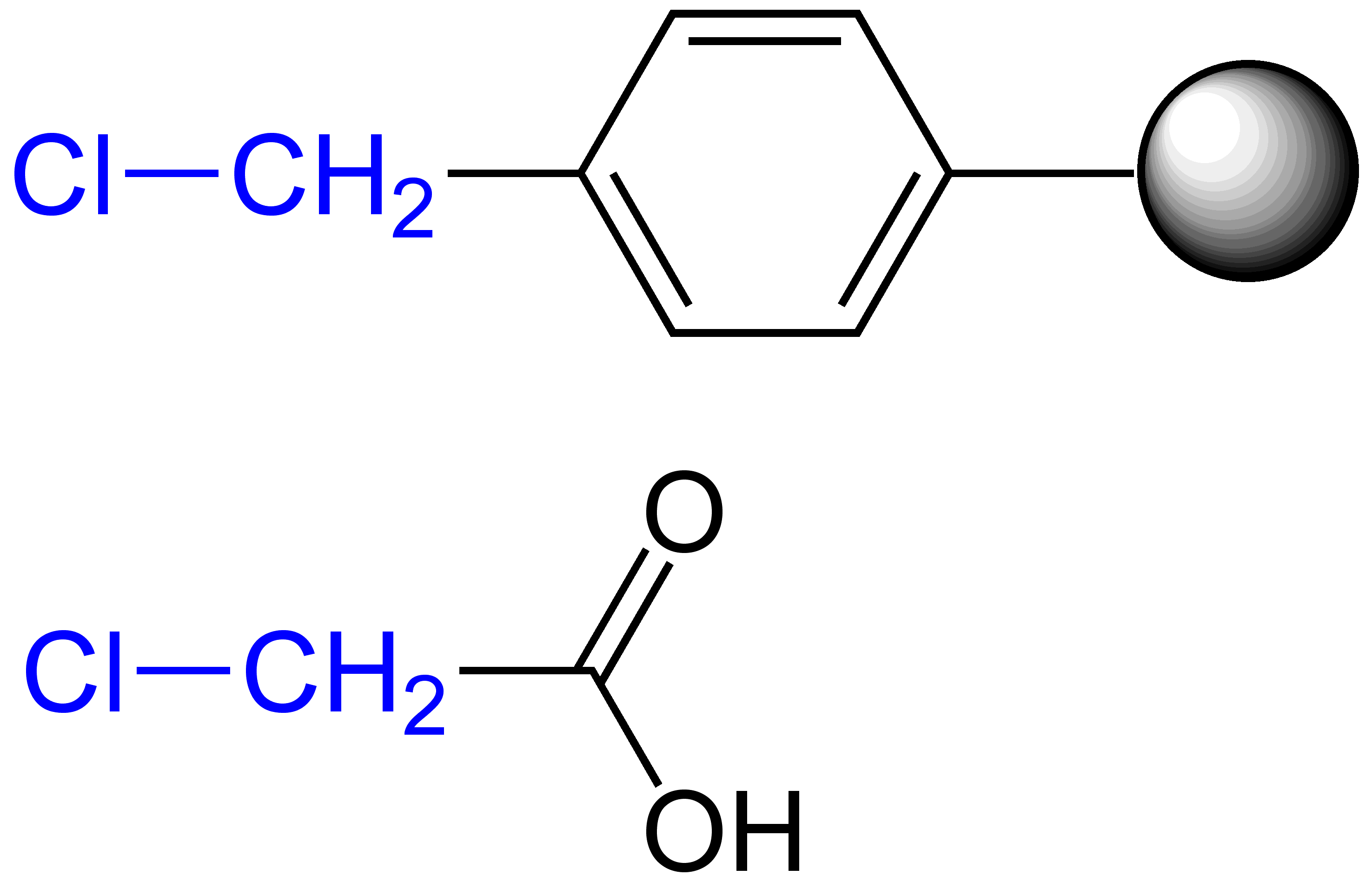 Chloromethyl Group General Formulae